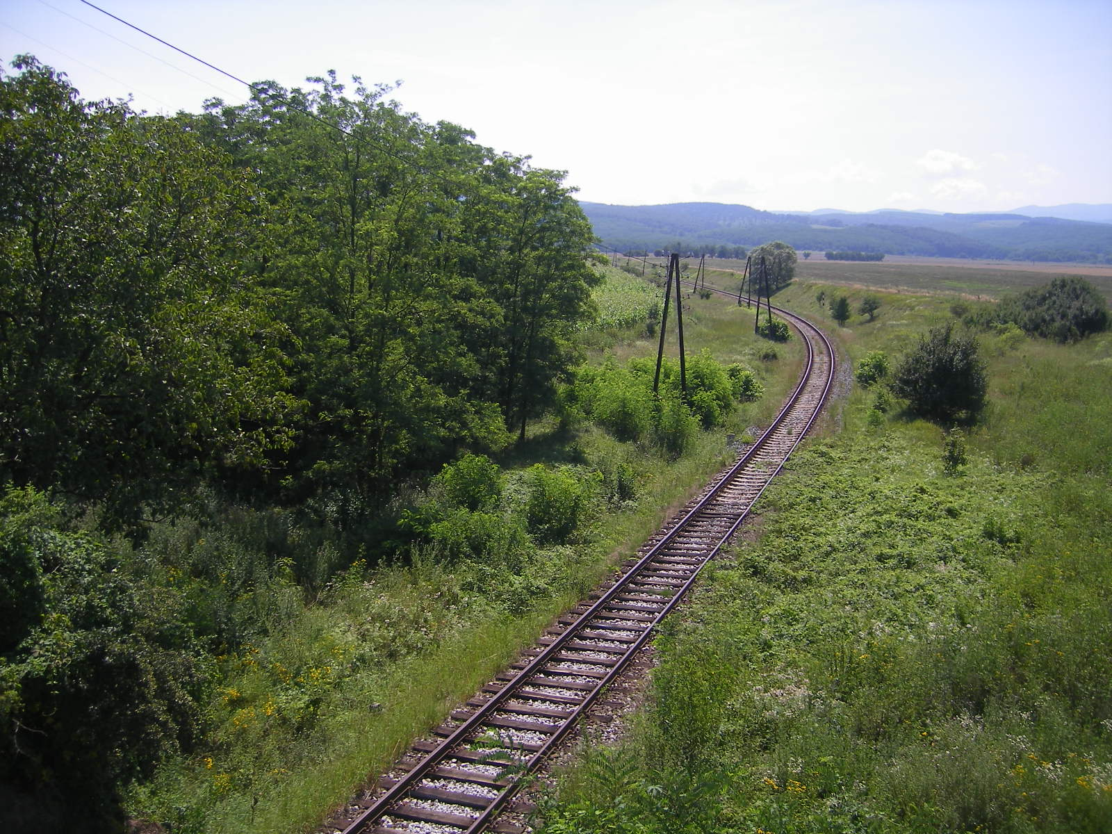 Šahy/Ipolyság - railway line Zvolen-Šahy near the town